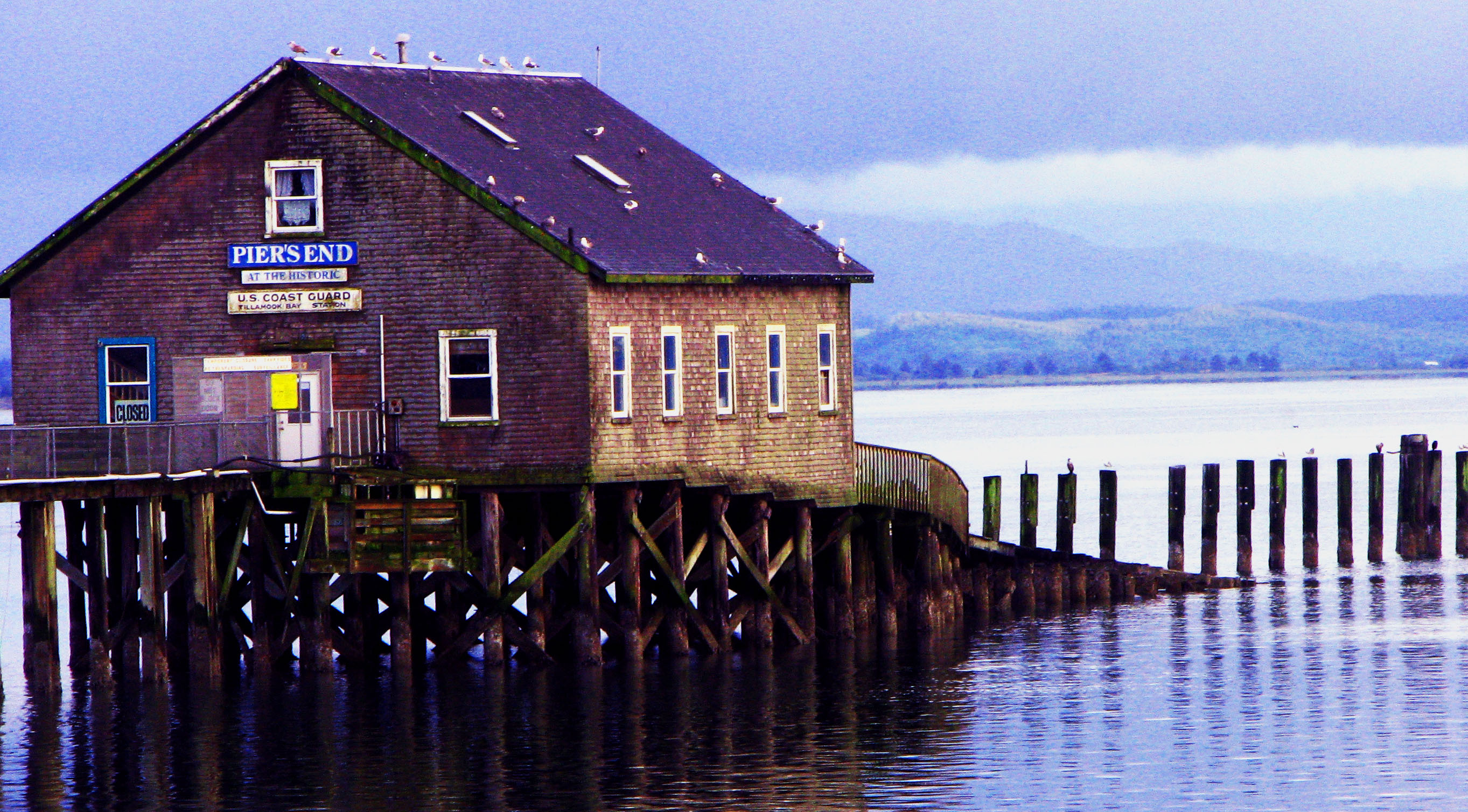 U.S. Coast Guard Tillamook Bay Station at Garibaldi, Oregon.